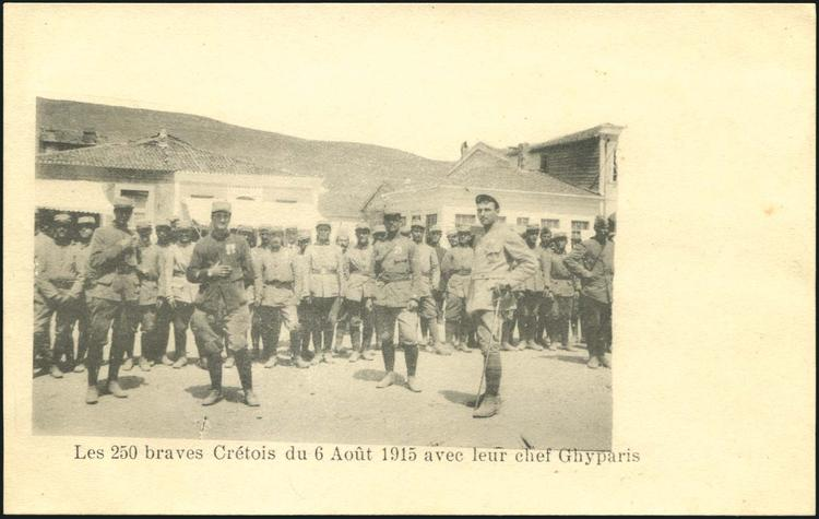 Portrait of Greek revolutionary and army officer Pavlos Giparis